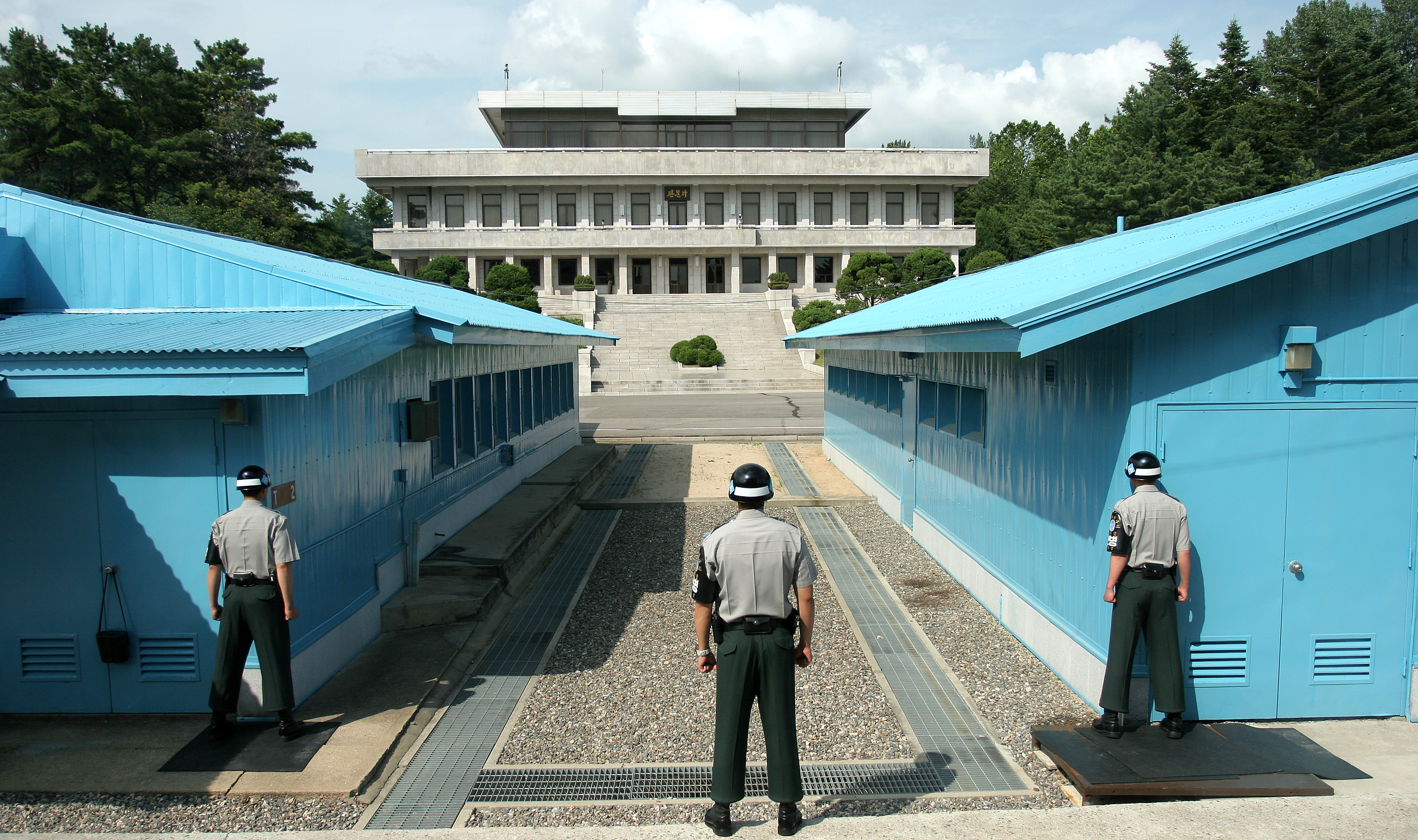 Three ROK soldiers watching the border at Panmunjeom in the DMZ between North and South Korea. coordinates: 37.955838, 126.677115